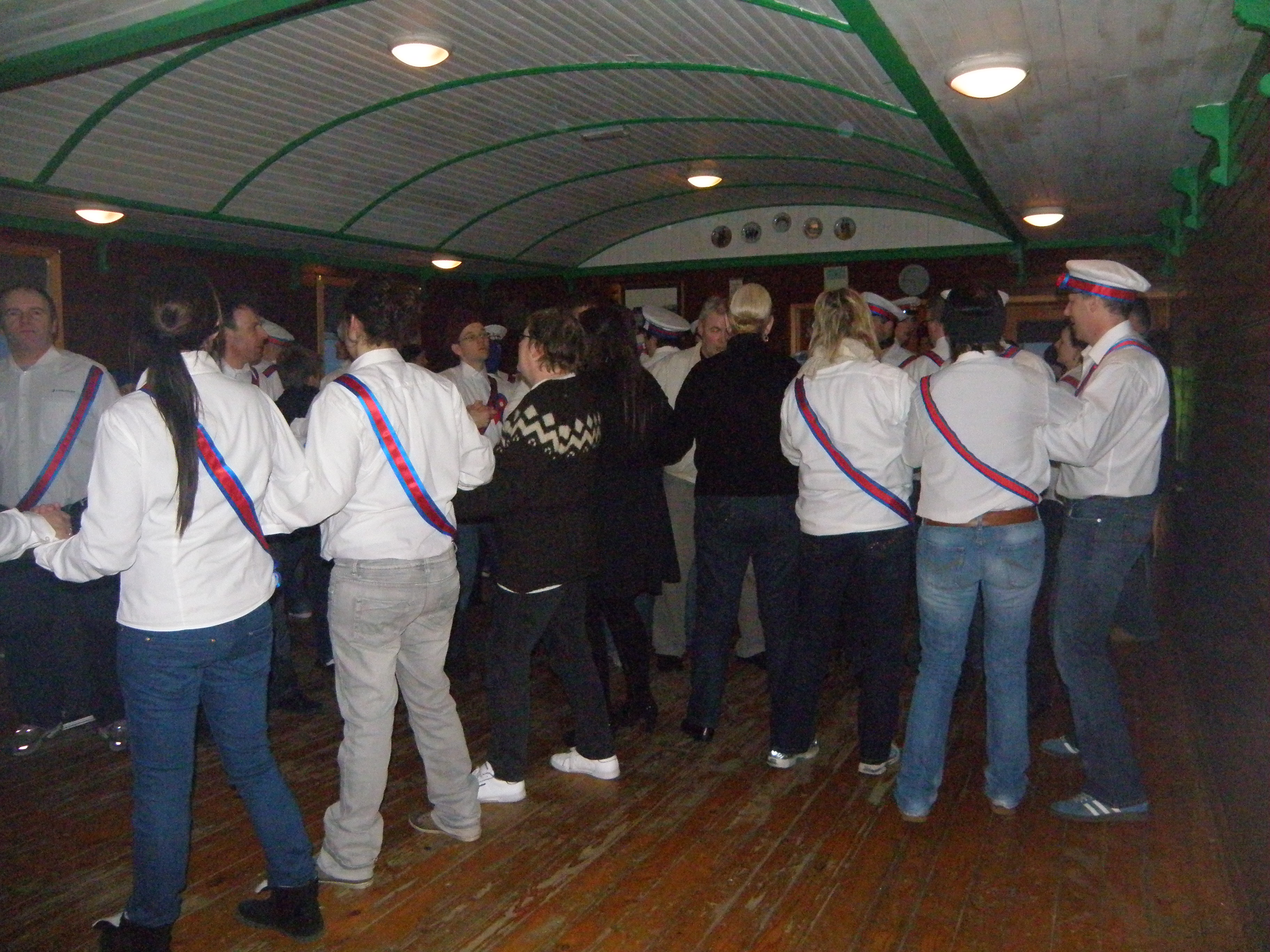 Faroese chain dance (folkdance) in the village Sumba, which is the southernmost village in Suðuroy and in the Faroe Islands. The people from Sumba have strong traditions regarding the Faroese chain dance (føroyskur dansur) and with the tradition with singing "kvæði" folk songs (the folk songs accompany the dance as the only music, no instruments are used). At the beginning of the Lent period they have traditions with dancing Faroese chain dance and also to hit a very strong barrel. They have made the barrel so strong that it last for 5-6 hours or so. Every now and then they go up to the dancing hall (Dansistovan) next to the church and dance the chain dance and then back again to hit the barrel. The men have one barrel and the women have one. The have special costumes in the same colours as the Faroese flag Merkið: White, red and blue. This photo was taken on 5 February 2011 inside Dansistovan (the dance hall). Føroyskt: Føroyskur dansur í Dansistovuni í Sumba á førstulávint 5. mars 2011.